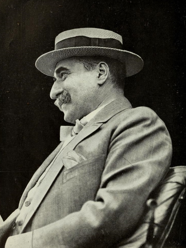 Portrait of David Lamar